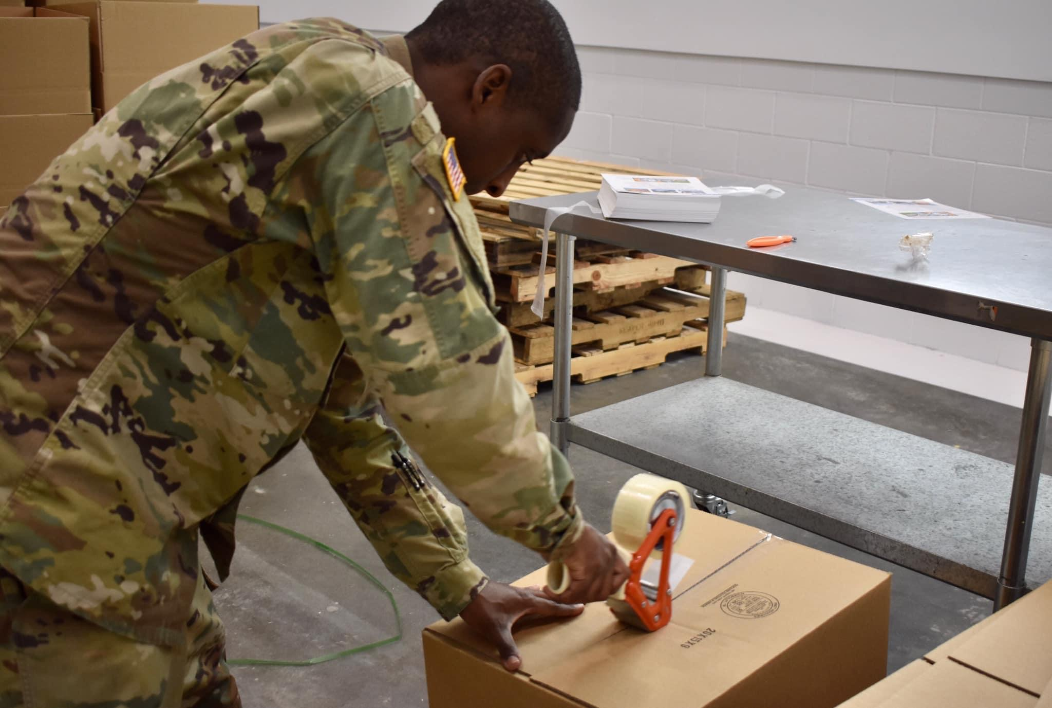 Soldiers from the 1177th Transportation Company support warehouse and distribution operations at the Atlanta Community Food Bank as a part of the Georgia National Guard COVID-19 response force, April 2020. U.S. Army National Guard photo by Major Charles W. Westrip